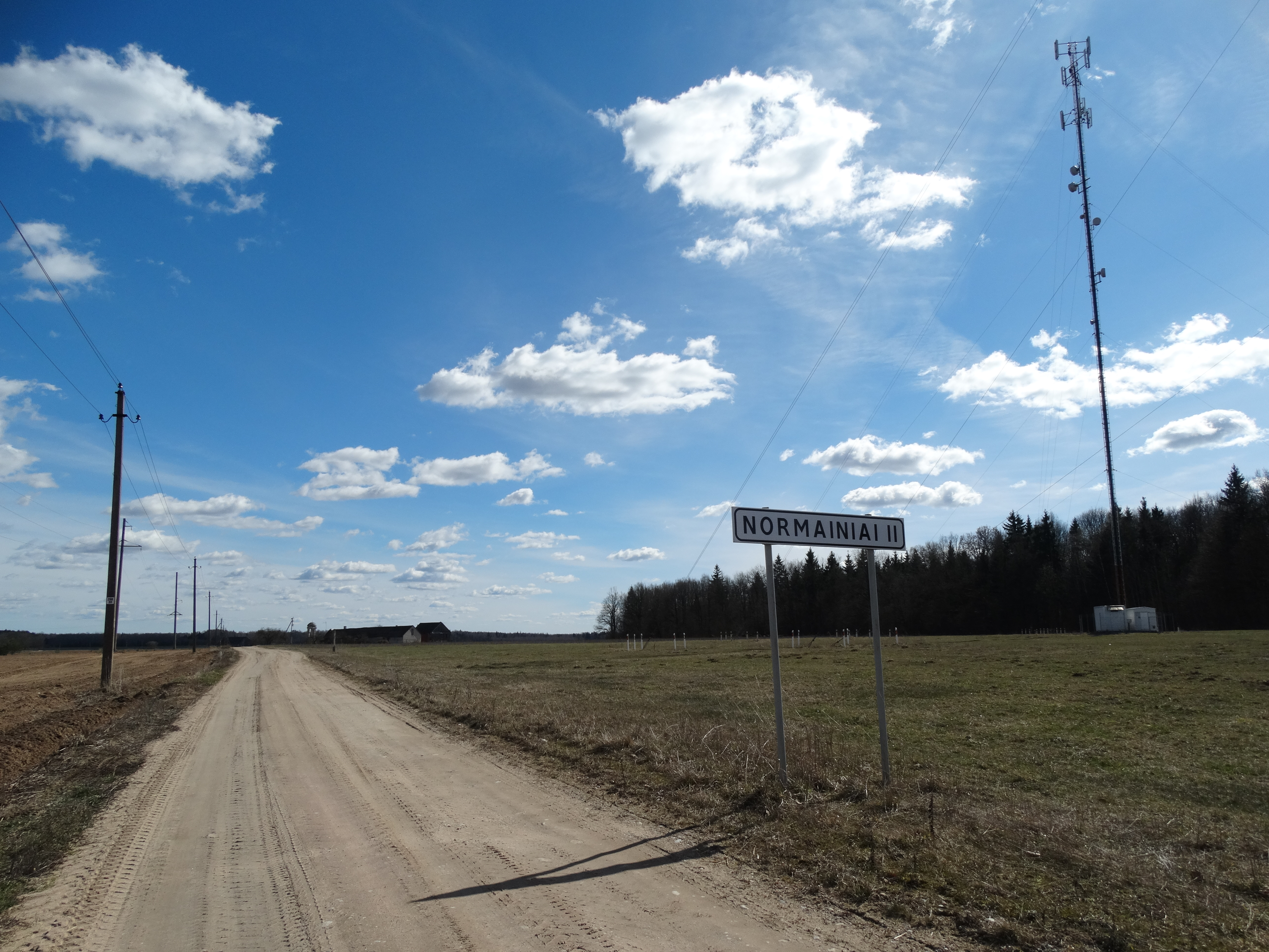 Normainiai II, Jonava district, Lithuania